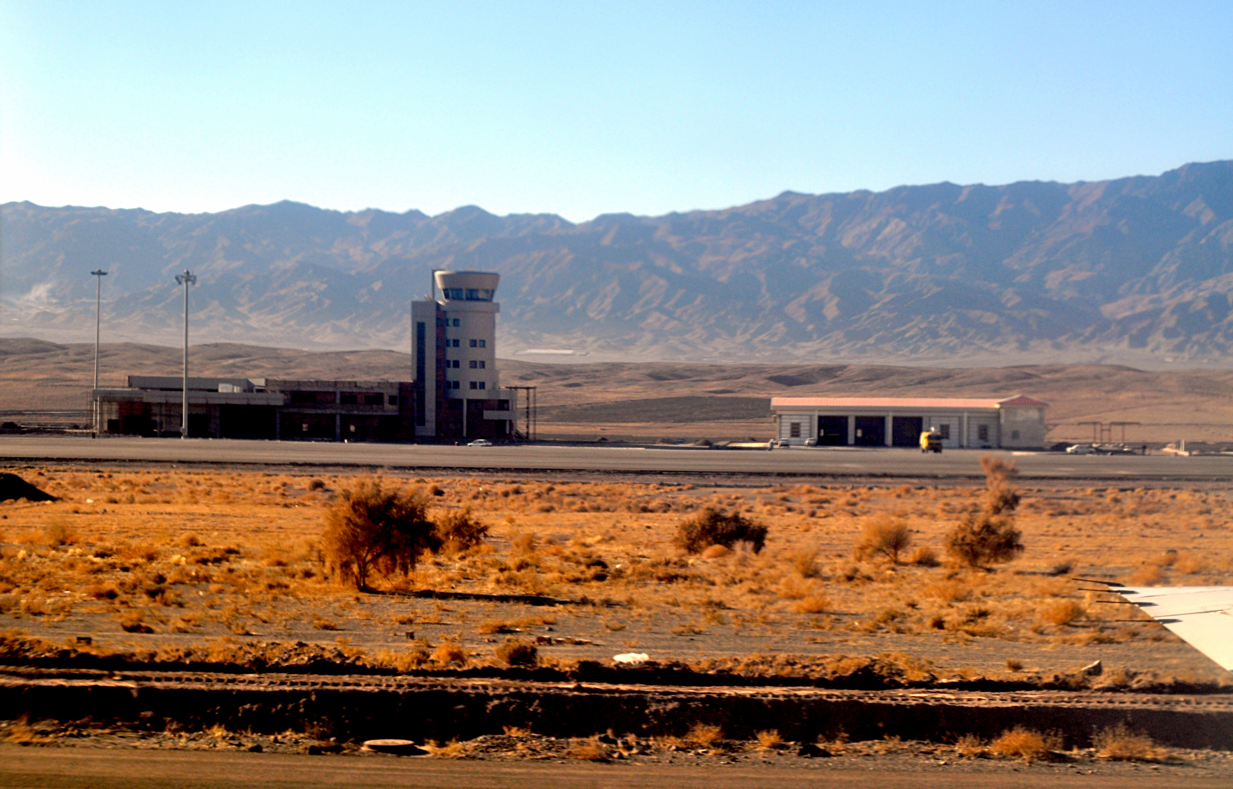 Birjand Airport (new terminal)